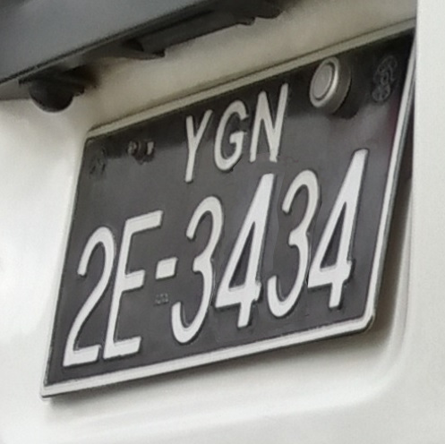 A dog lies in the shade under a car with black private registration plates from Yangon (YGN). Two characters on the plate have been omitted to protect the identity of the vehicle owner.